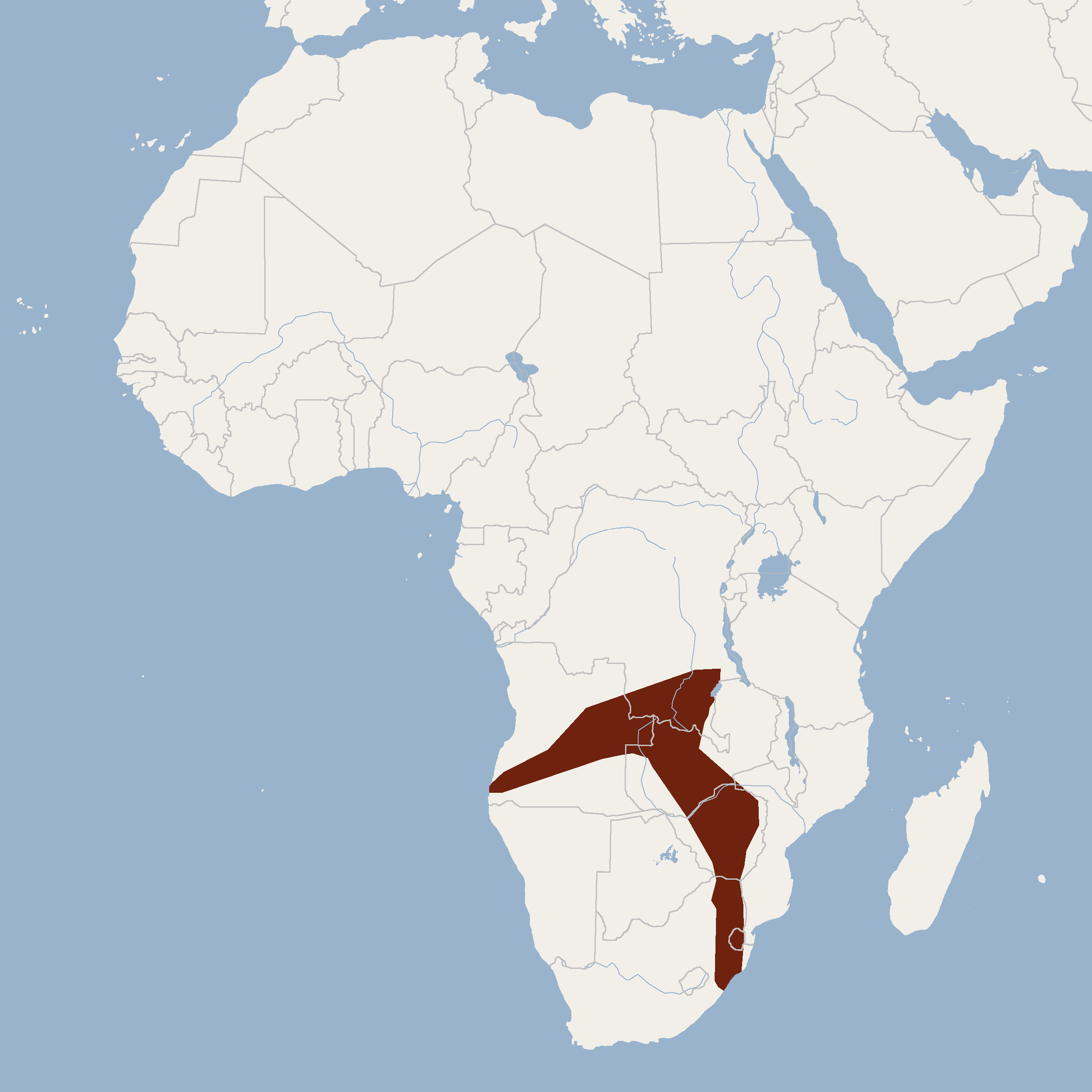 According to Happold & Happold, 2013